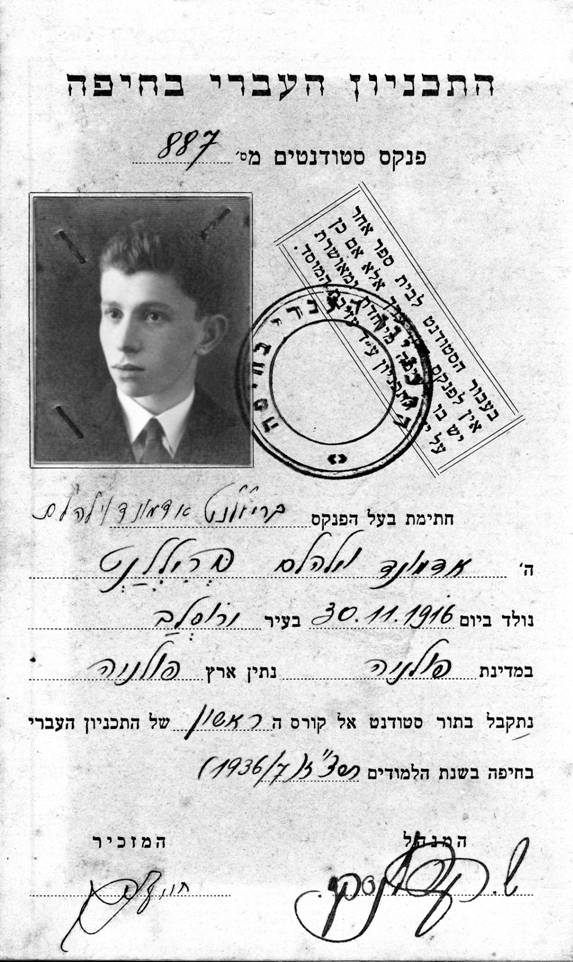 Edmond's Student Card of Hebrew Technion Mechanical Engineering